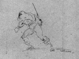 This a frame of a video of Drawing Conan in 90 Secs. The video is a demonstration of how to draw a Conan illustration quickly.